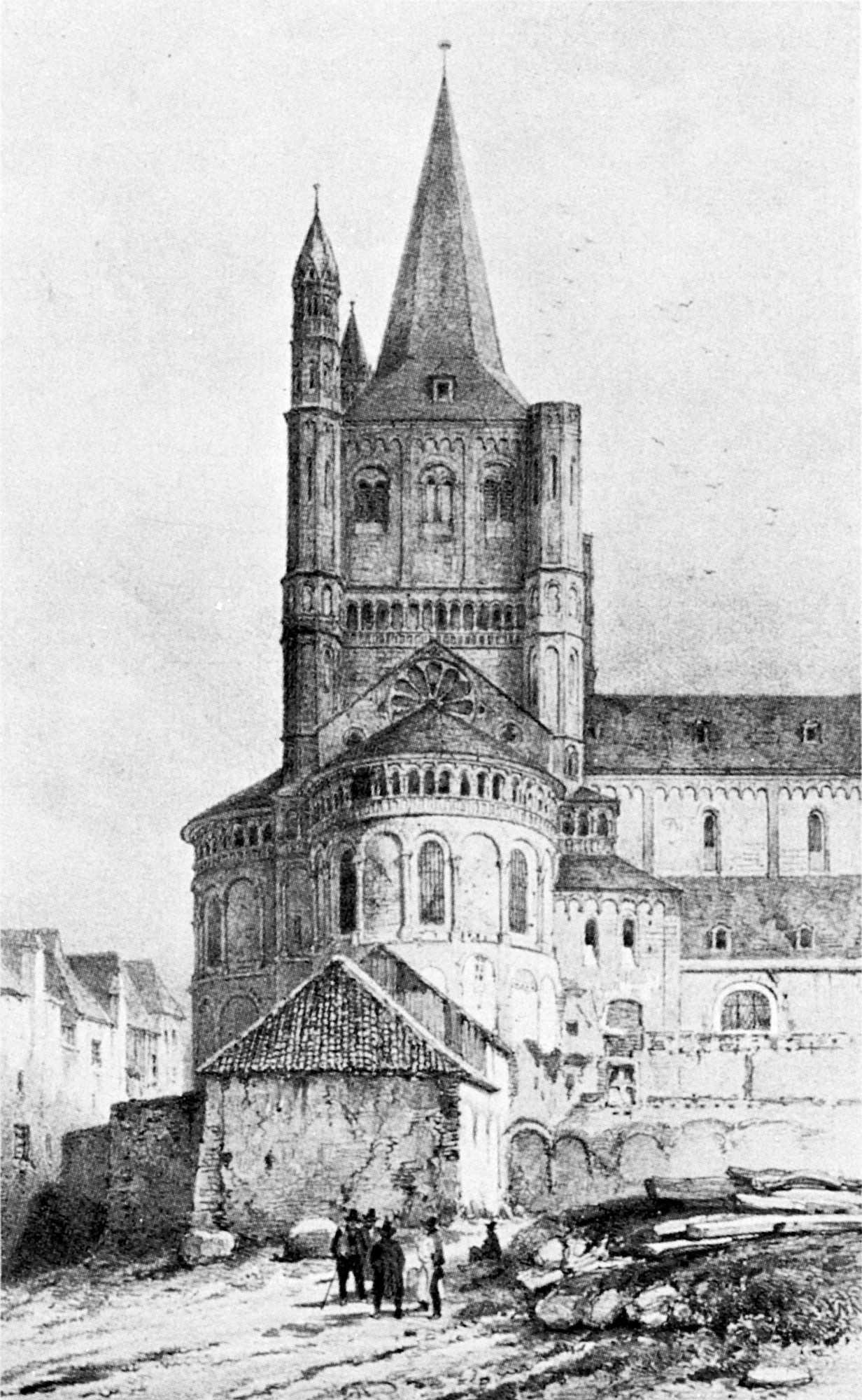 Groß St. Martin, Cologne, view from north, lithographic print